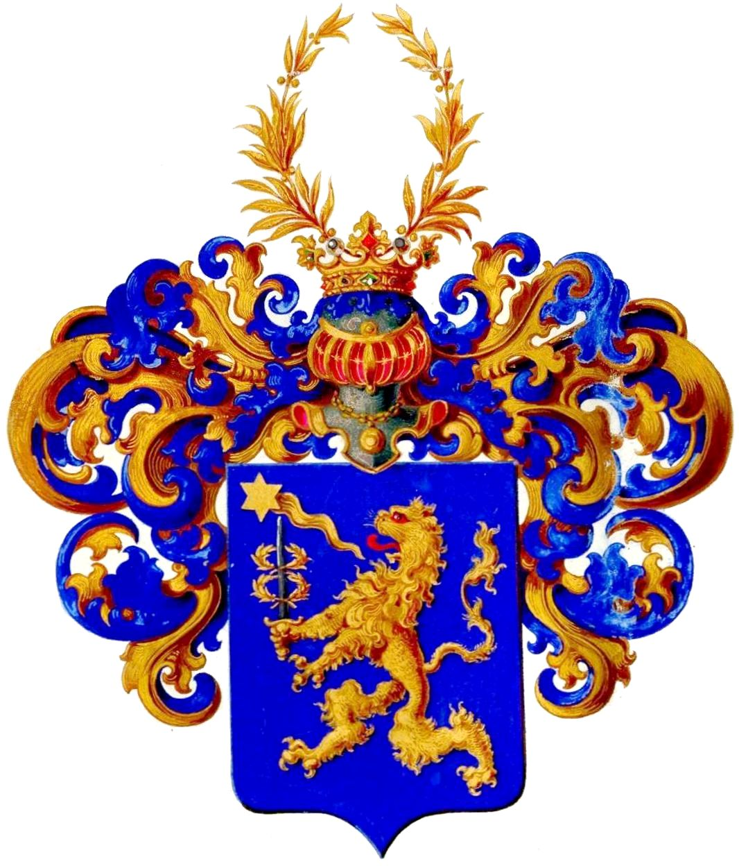 COA Oliv